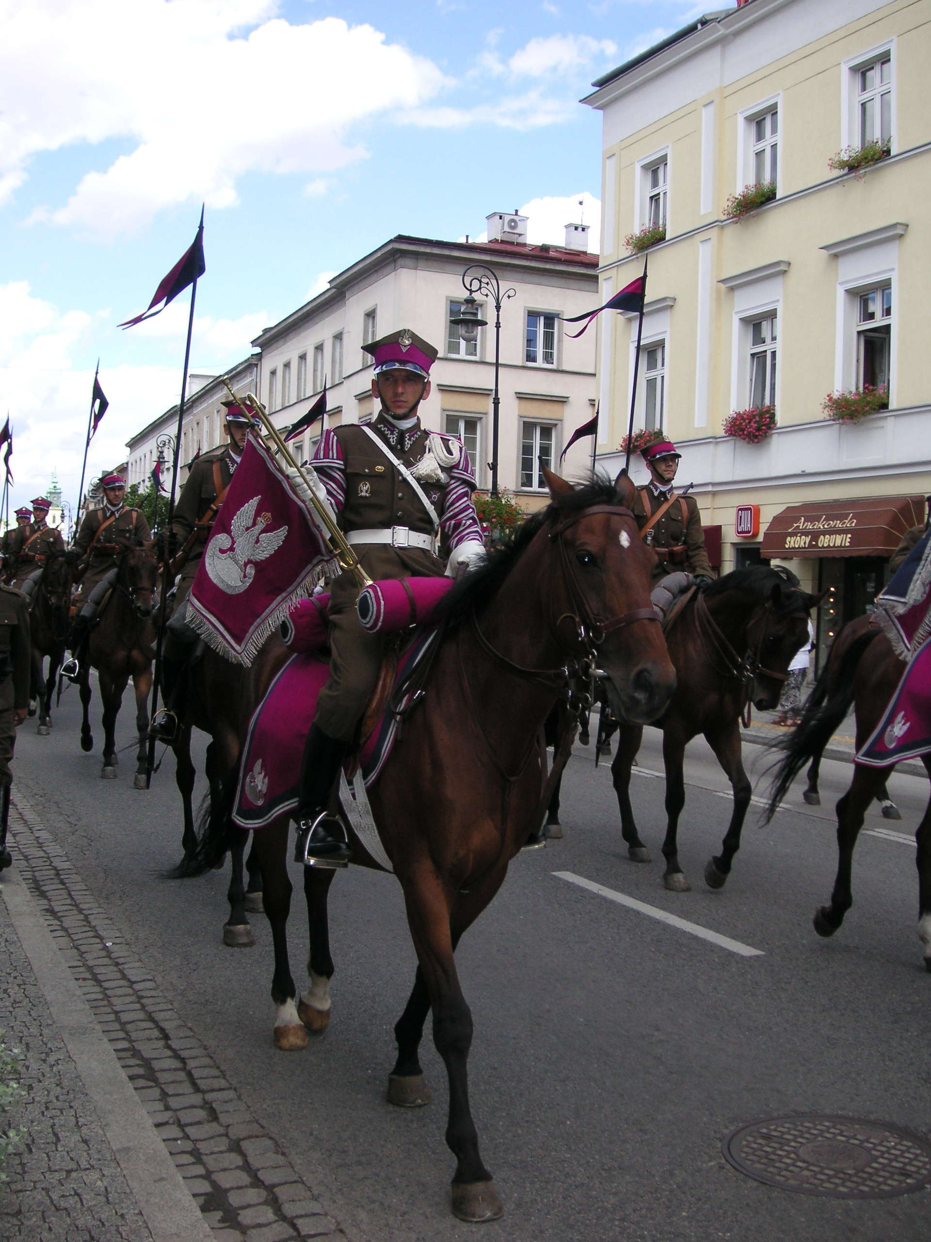 A military parade in Warsaw's Royal Road (Nowy Świat Street), commemorating the Feast of the Polish Army (August 15th)